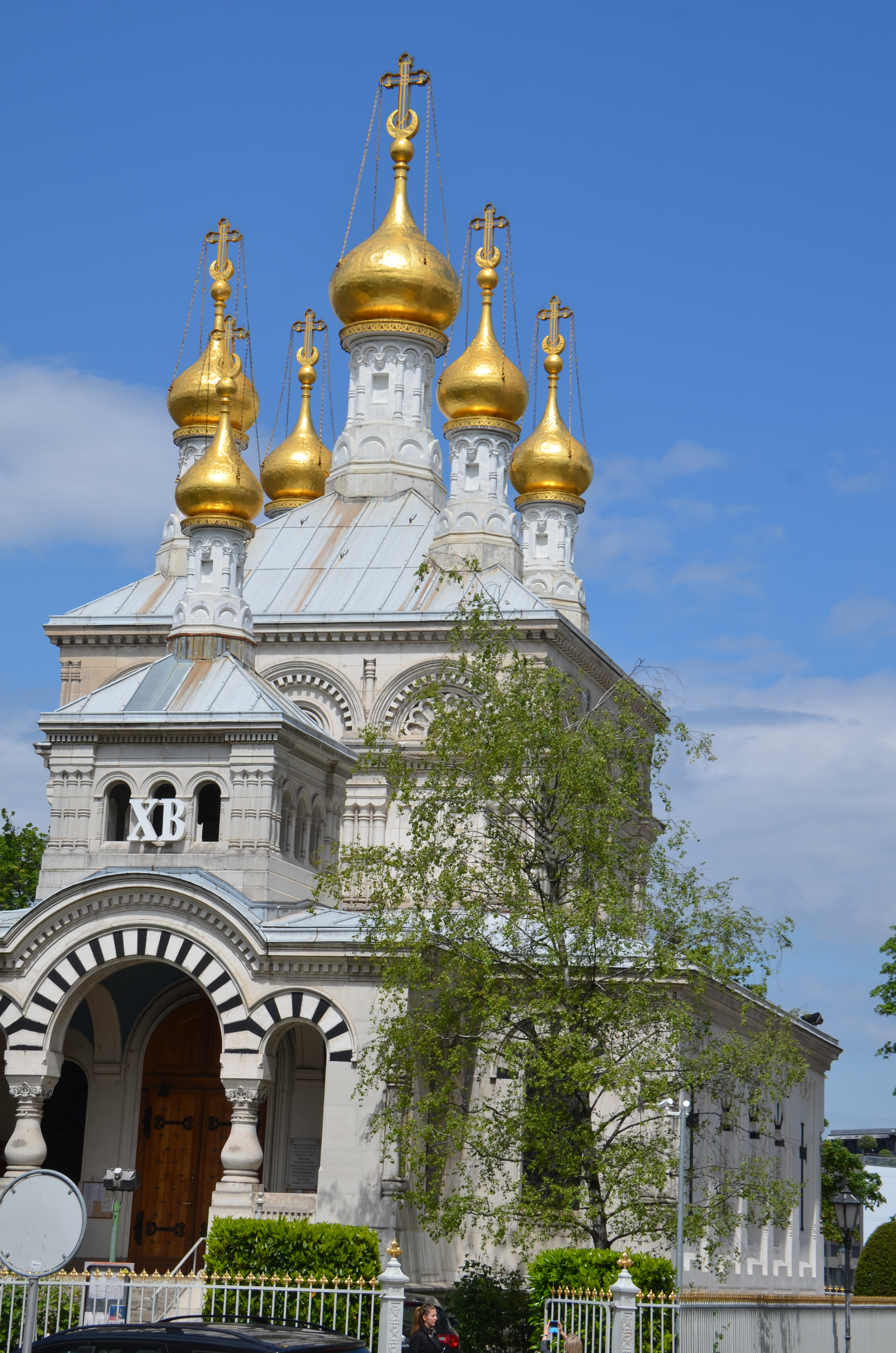 Russian Orthodox church at Geneva with its famous golden towers